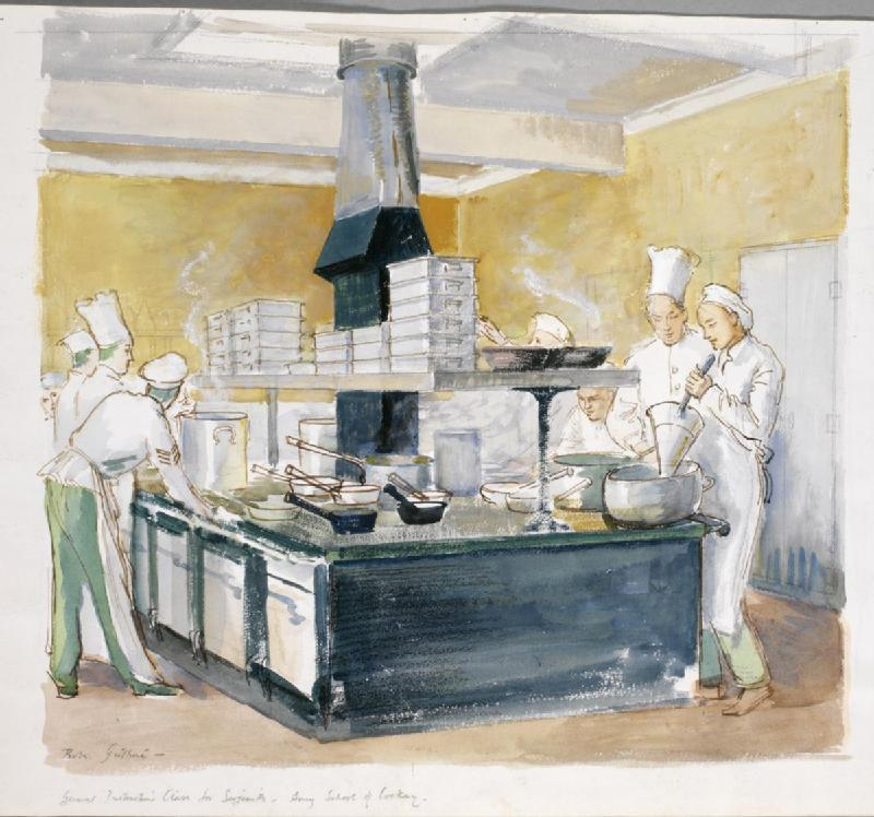 General Instruction Class for Sergeants - Army School of Cookery, Aldershot image: A sketch of a kitchen with a central oven built around a chimney. Student chefs are standing on either side of the stoves which are covered in pans and baking trays. Chefs wearing chef hats are supervising the proceedings.